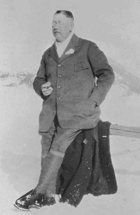 Johan Petter Åhlén, 1924 Olympics